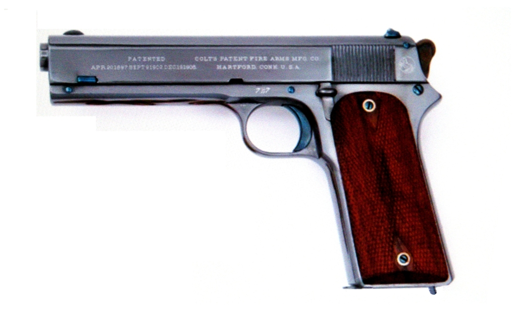 Colt Model 05